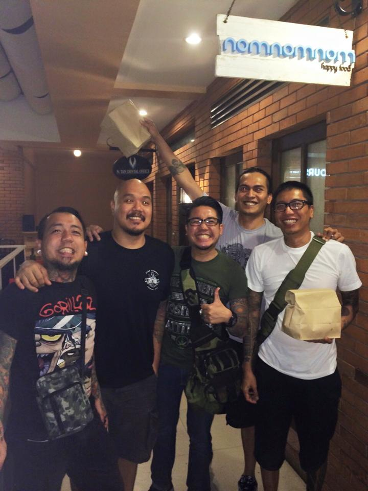 Filipino band Kamikazee in 2015 taken at 3rd Floor POS Bldg. Scout Madrinan St. corner Tomas Morato, QC.